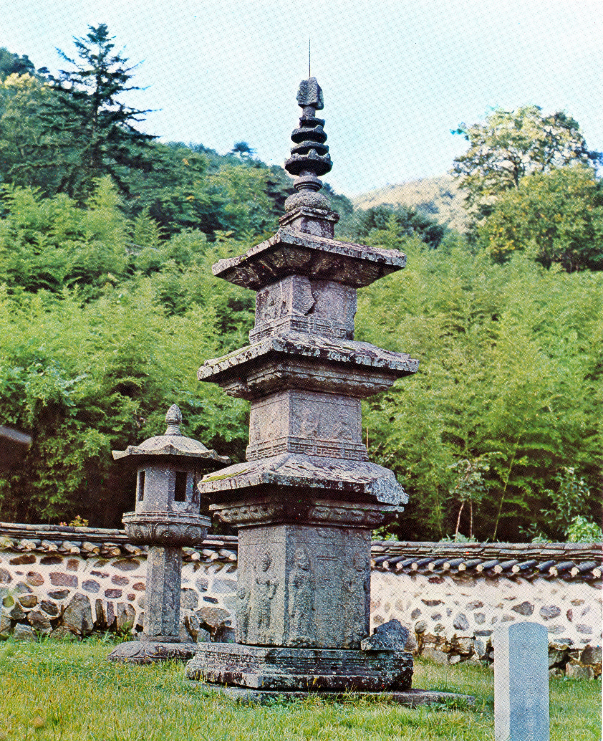 Three-story Stone Pagoda at Baekjangam of Silsangsa Temple in Namwon, Korea